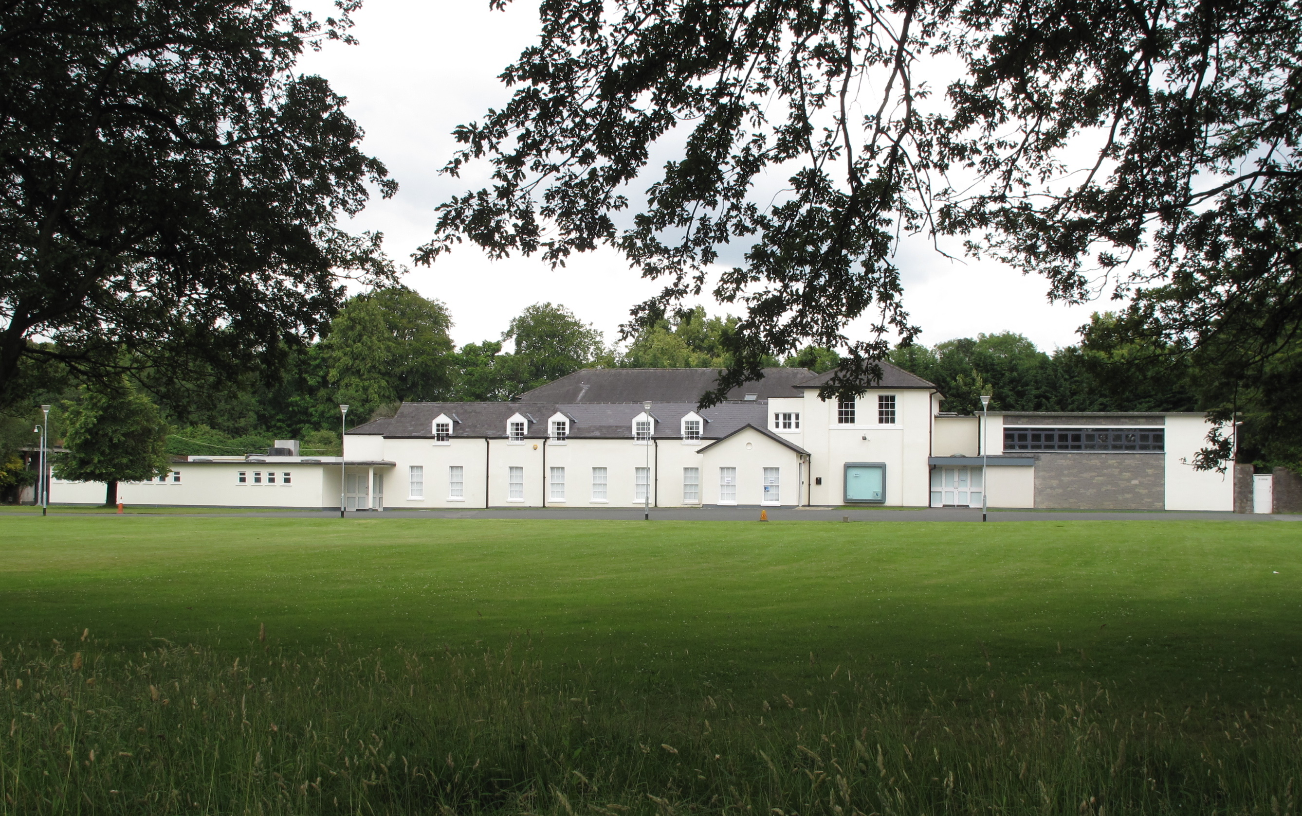 Little Ratra (officially Ratra House) in the Phoenix Park in Dublin. Little Ratra was named by its one time resident, ex-president Douglas Hyde. It later became headquarters of the Civil Defence.